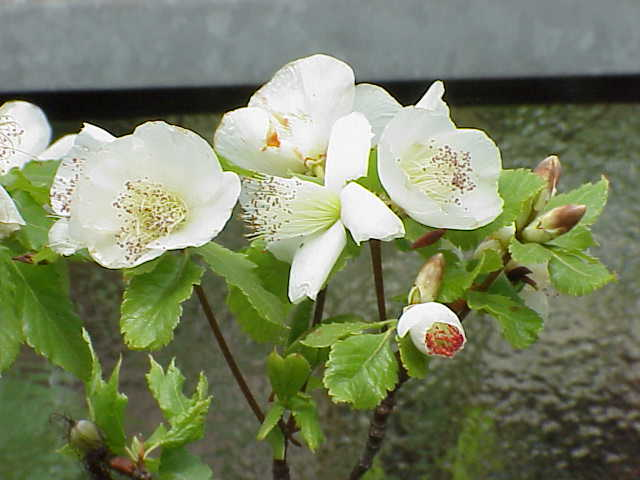 Species: Eucryphia glutinosa Family: Eucryphiaceae Image No. 3